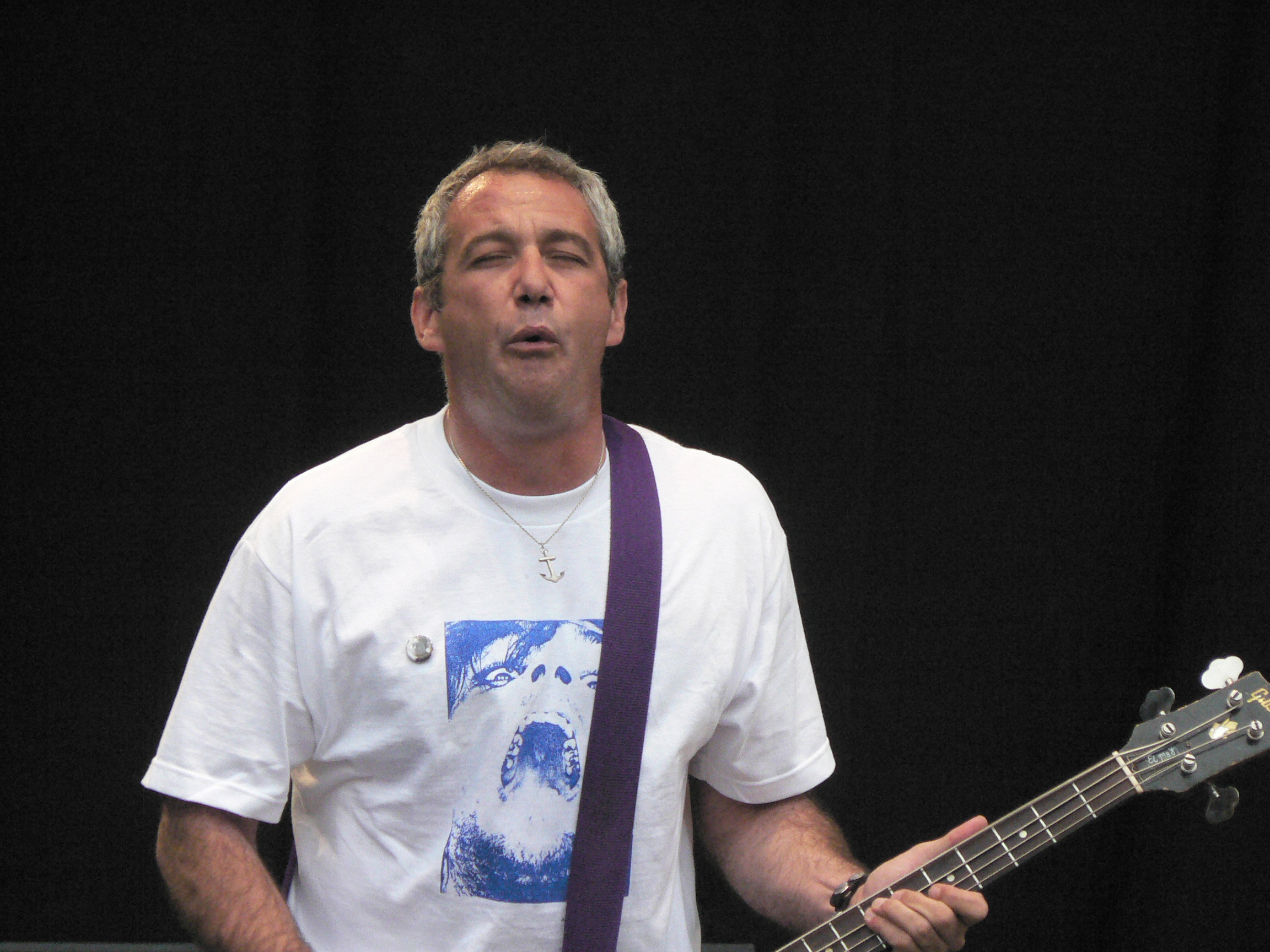 Live on the 15th of August, 2006. Sziget Fesztivál, Budapest, Hungary. Iggy and the Stooges. ©© Derzsi Elekes Andor, Budapest, 2014, Published in the Metapolisz DVD line. You are authorised to use this photo under Creative Commons – even for commercial, for profit purposes. The photo must be attributed to Derzsi Elekes Andor. All of the photos and vids in the Metapolisz DVD line are under Creative Commons and can be used even for commercial – for profit – purposes. Recommended Citation Derzsi Elekes Andor: Metapolisz DVD line